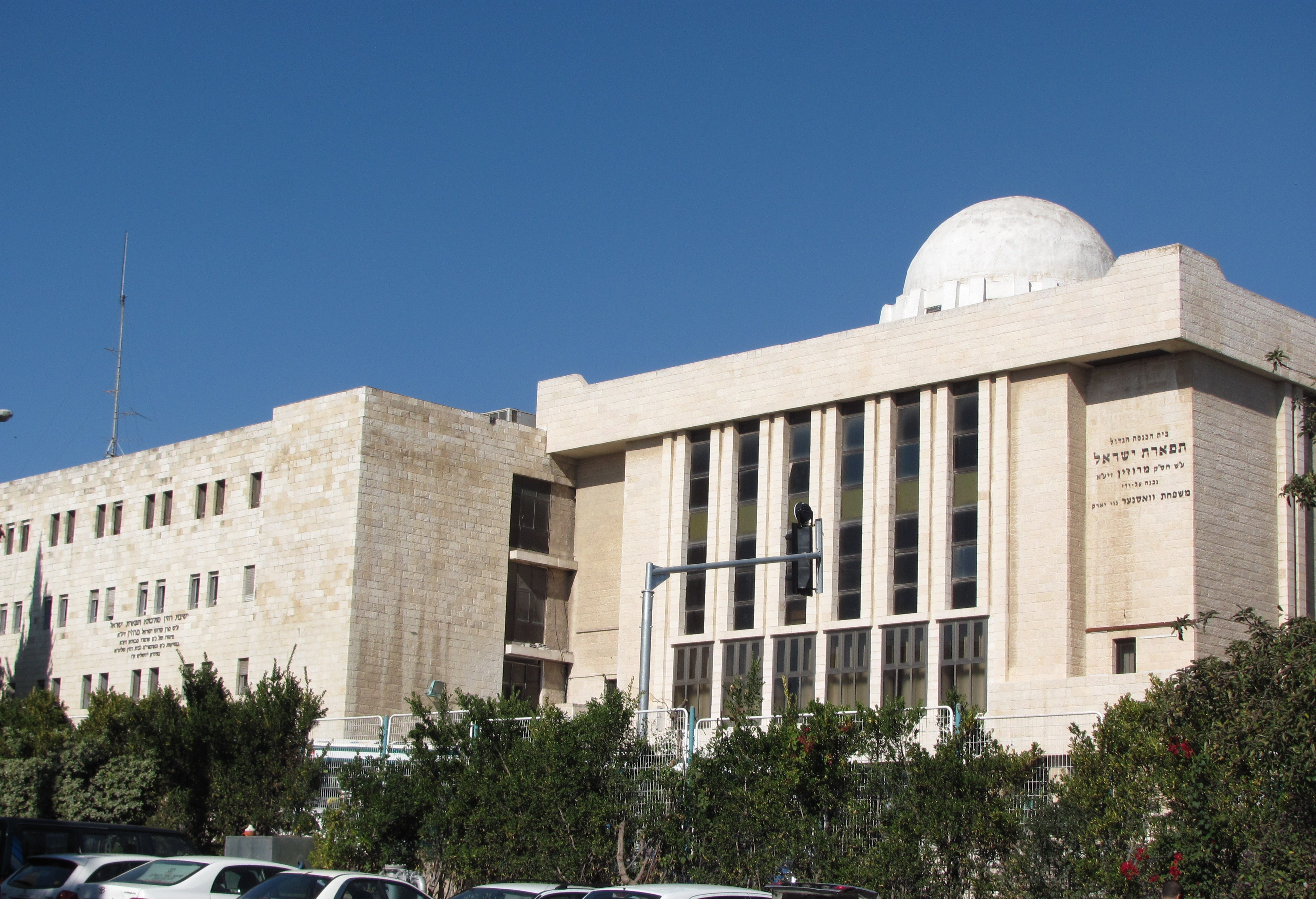 View of the Ruzhiner yeshiva (left) and synagogue (right) on Malkhei Yisrael Street, Jerusalem. The yeshiva and synagogue were built by the Boyaner Rebbe of New York, Rabbi Mordechai Shlomo Friedman, and named Tiferet Yisrael after the Ruzhiner Rebbe, Rabbi Yisrael Friedman. The dome atop the synagogue recalls the domed Tiferet Yisrael Synagogue in the Old City which opened in 1872 and which was bombed by the Jordanians during the 1948 Arab-Israeli War.